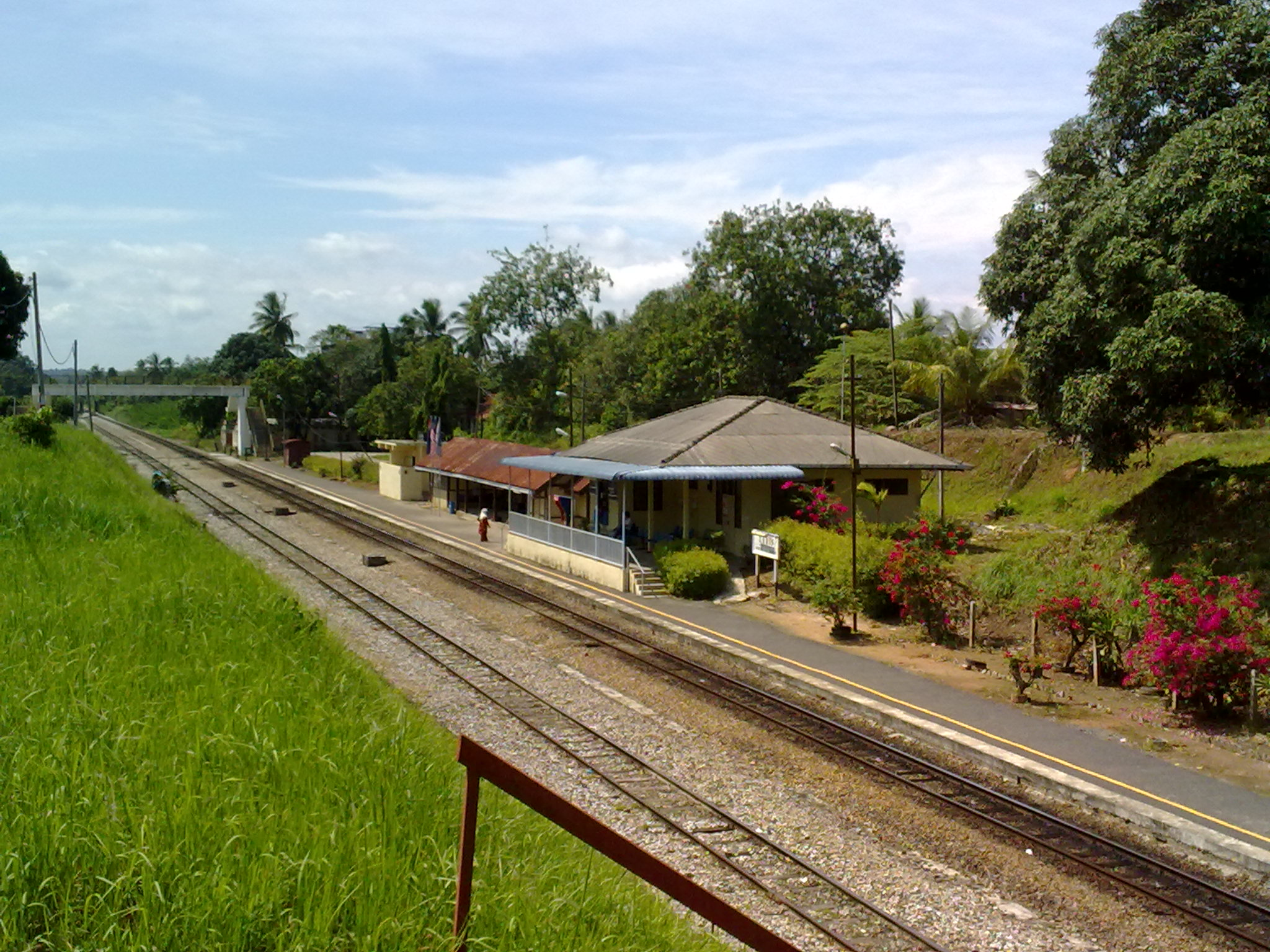 Stesen Kerertapi Labis